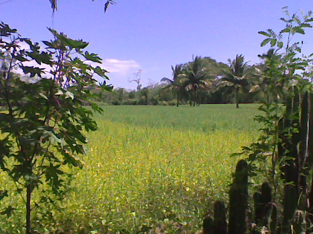 A Field in Regunathapuram